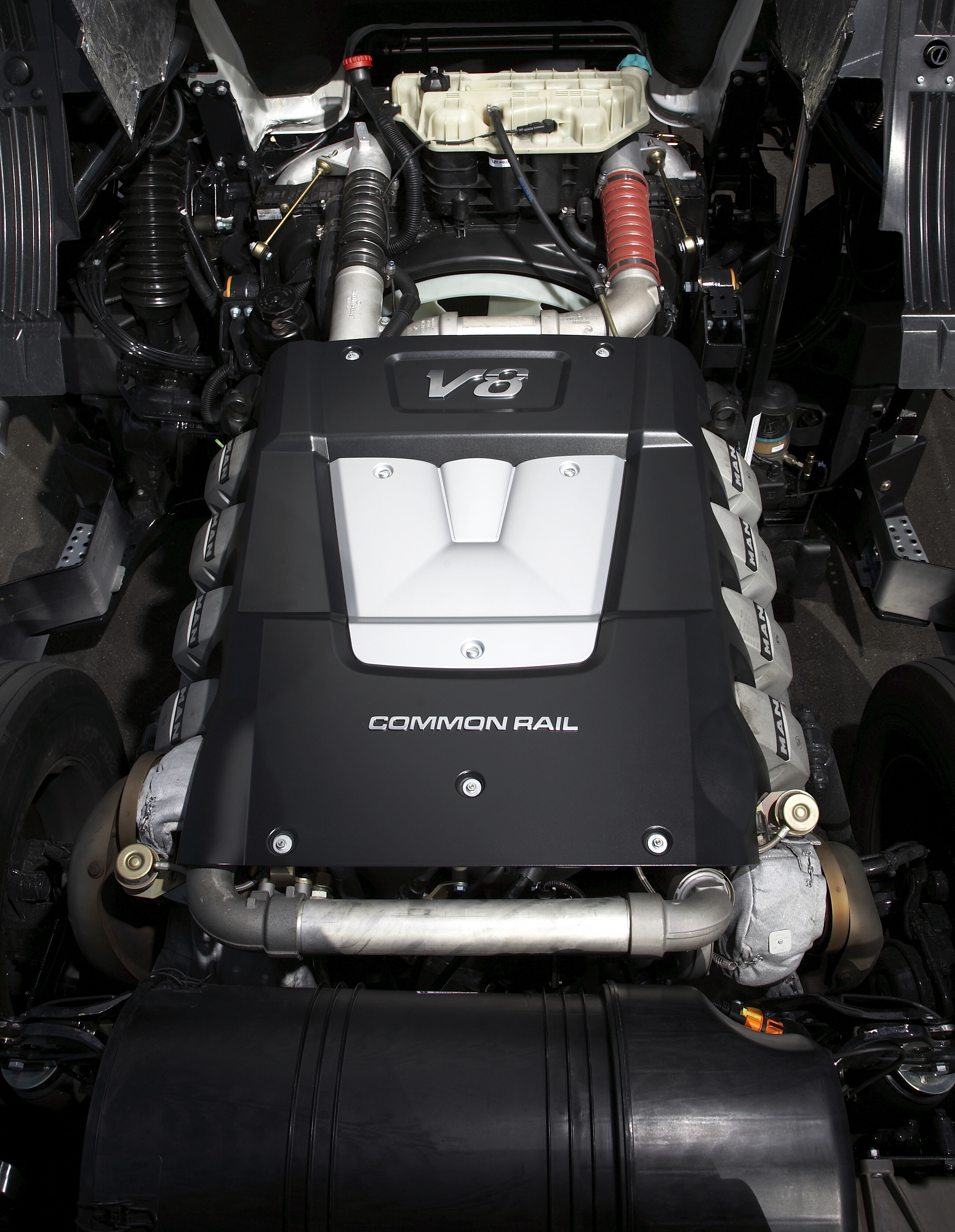 The MAN TGX V8 Diesel engine.